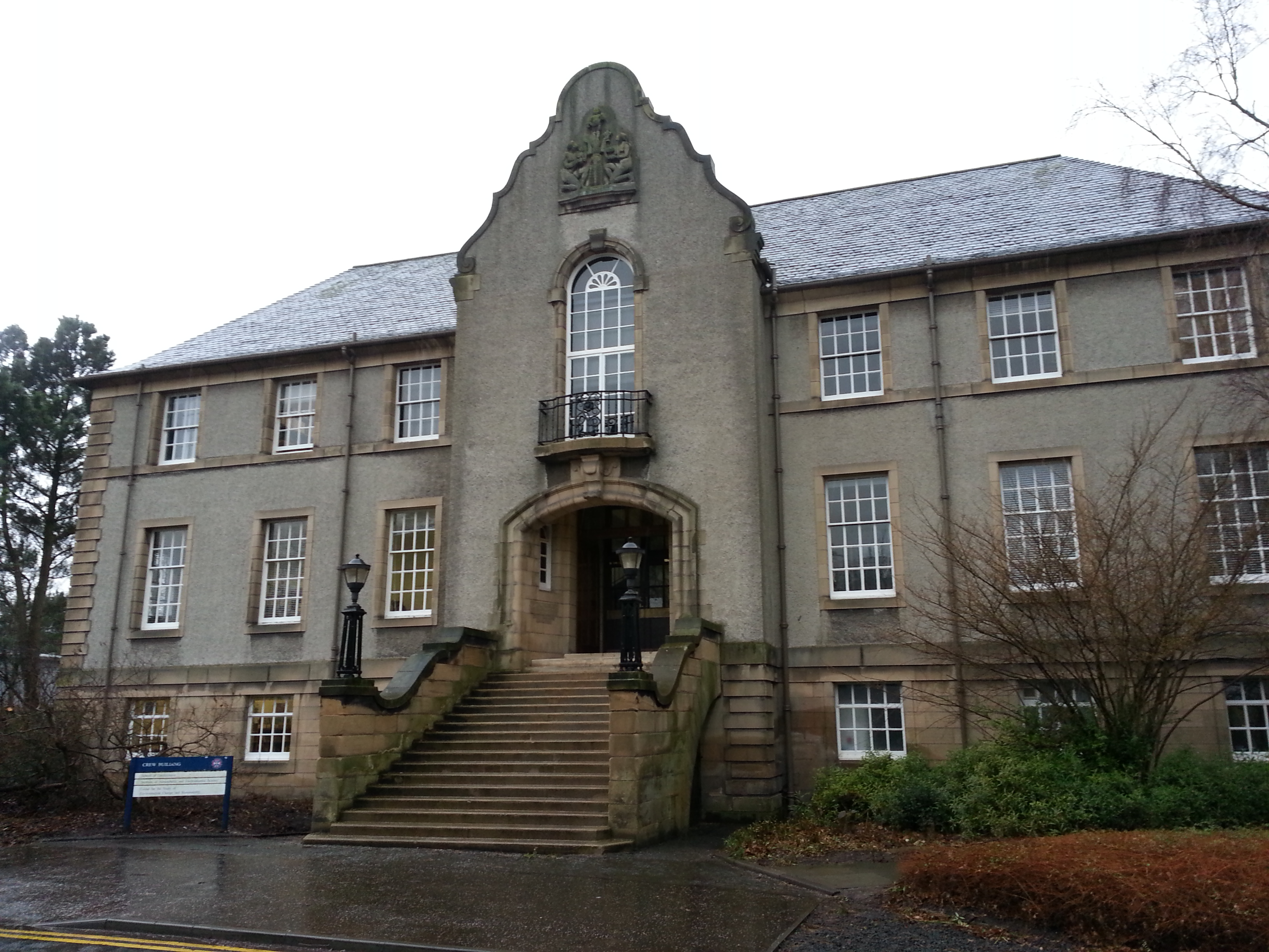 The Crew Building, King's Buildings, University of Edinburgh. Formerly the Institute of Animal Genetics, the building was designed and built by the architectural partnership of Sir Robert Lorimer and John Fraser Matthew and opened in 1930. The building is currently part of the University of Edinburgh's School of Geosciences.